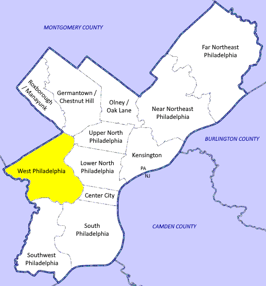 Map of Philadelphia County highlighting West Philadelphia